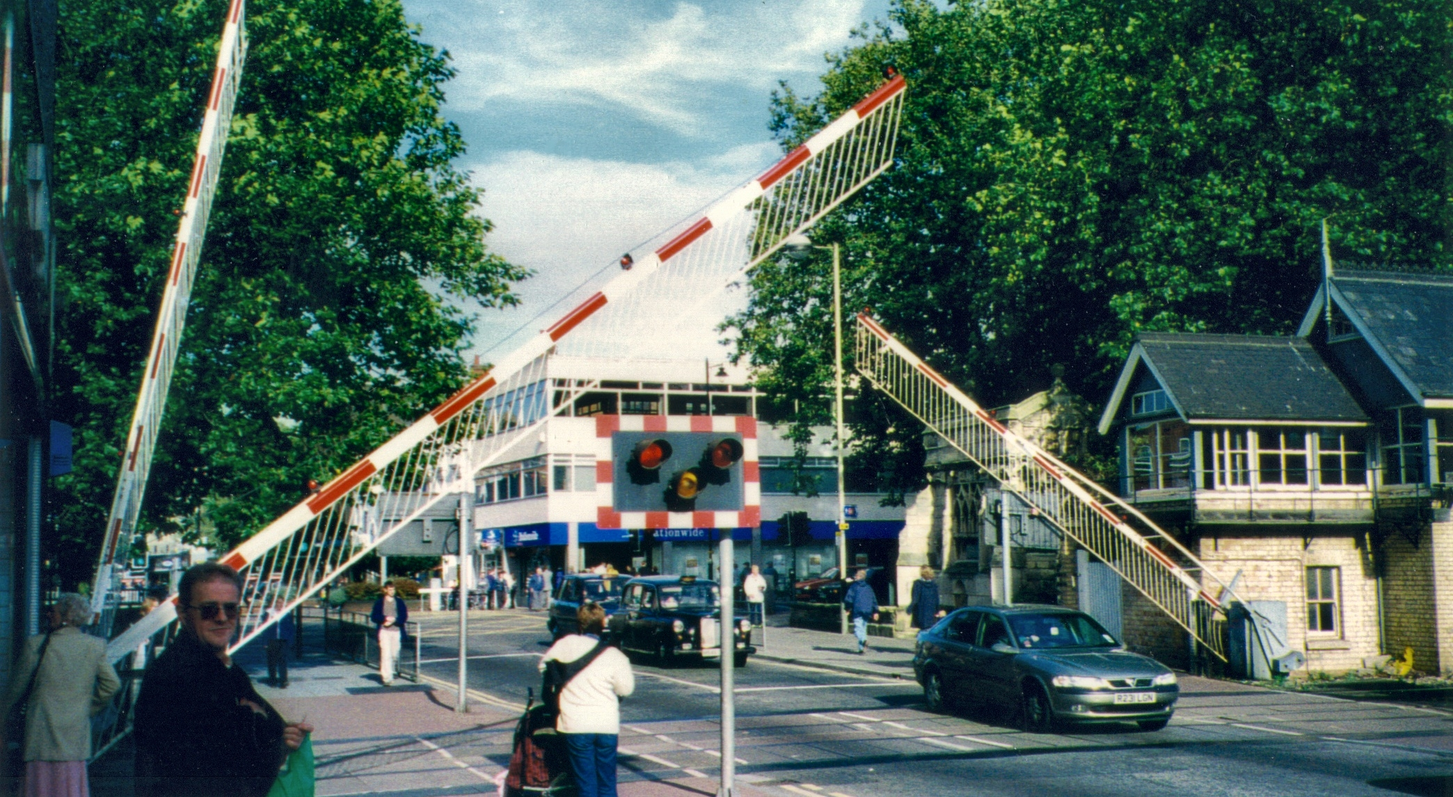 The railway level crossing on Lincoln High Street, Lincolnshire UK, in run up to Lincoln Central station. Photograph by User:Redvers originally from wikipedia, now transferred to Commons. Note that the photograph has been altered by the author since the original upload and that the licence status has changed from Own Work GDFL to the more explicitly free Own Work Public Domain All Rights Released.